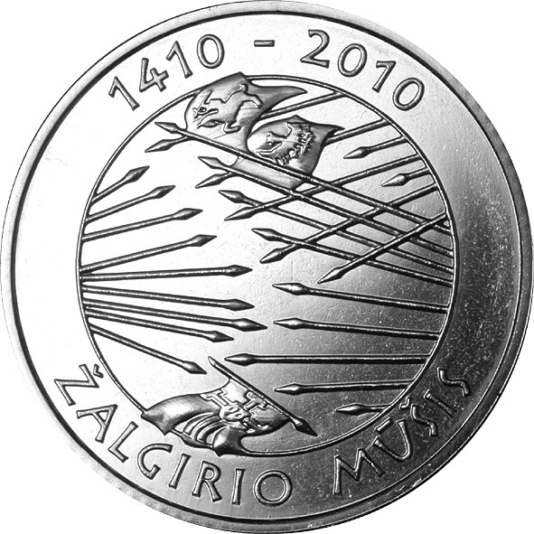 Denomination 1 litas Alloy of Copper and Nickel Cu. Ni Diameter 22.30 mm Weight 6.25 g Mintage 1.0 million pieces